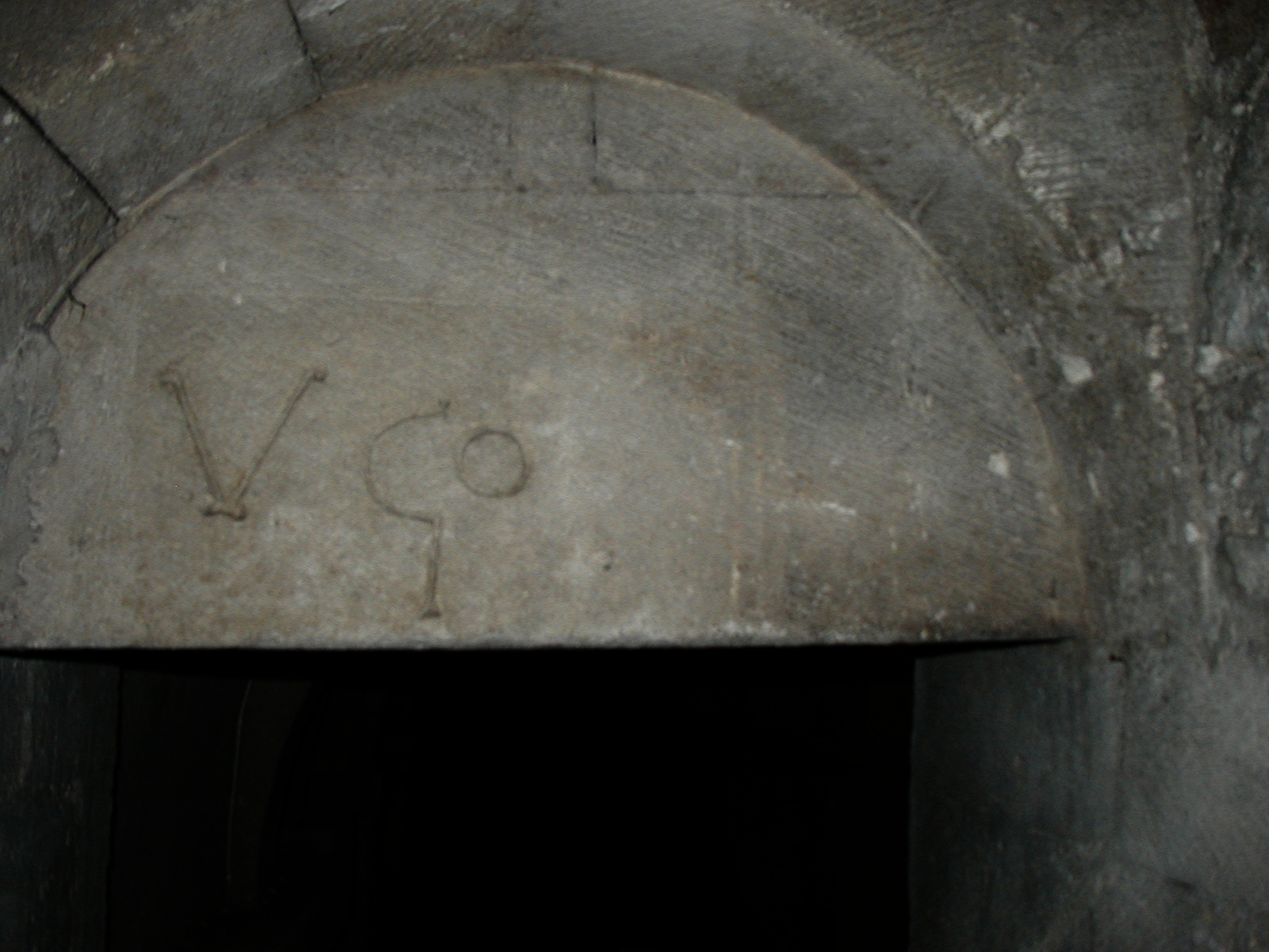 Stone Master signature inside Apt Cathedral Crypt M. Disdero 11 August 2002